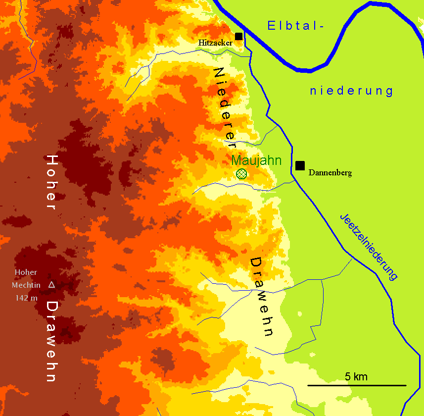 Relief map of the location of the "Maujahn" (orange stands e.g. for heights between 50 and 75 mm AMSL, dark red-brown for heights over 100 m).